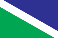 Flag of Lüganuse Parish, Ida-Viru County, Estonia.